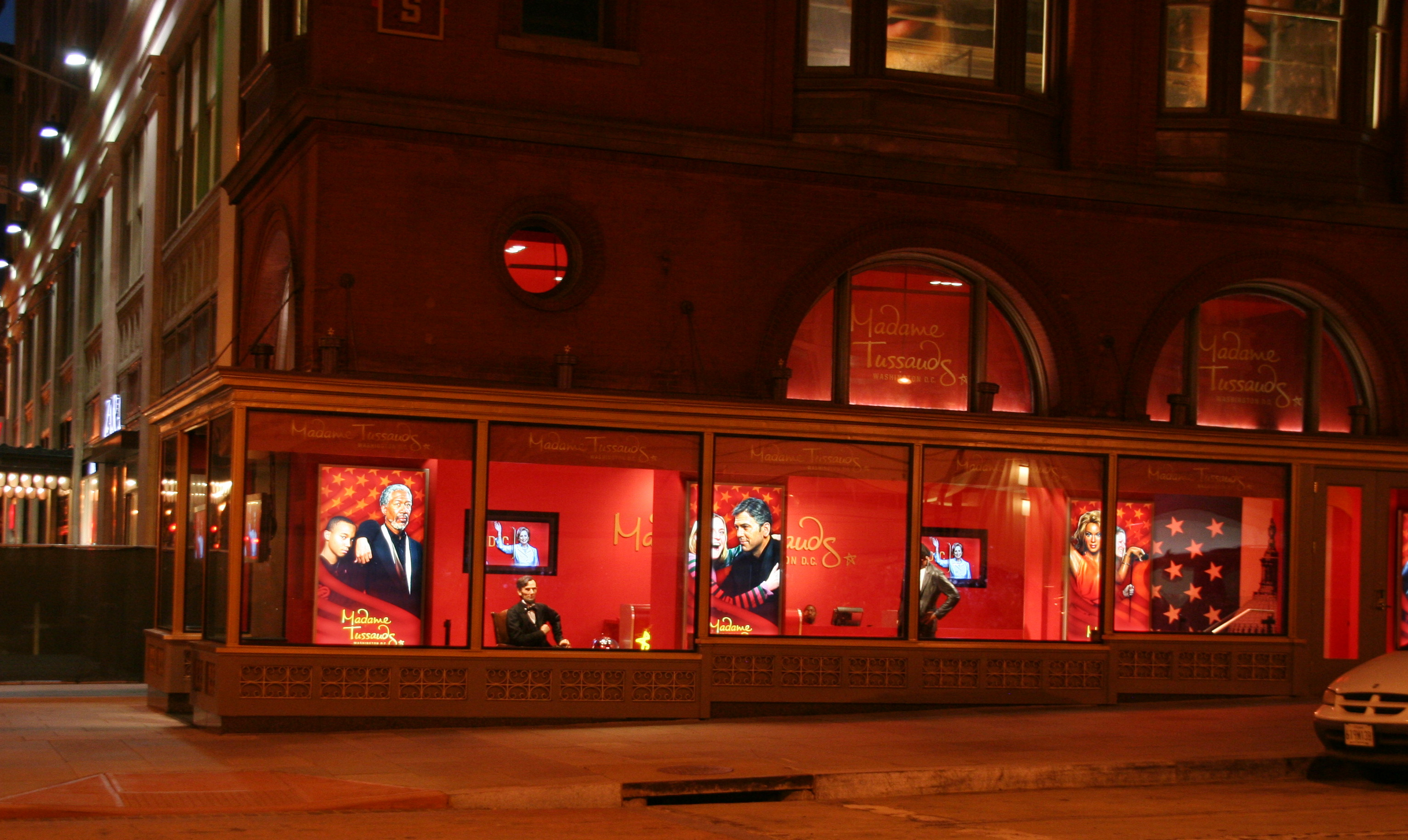 Madame Tussauds wax museum in Washington DC